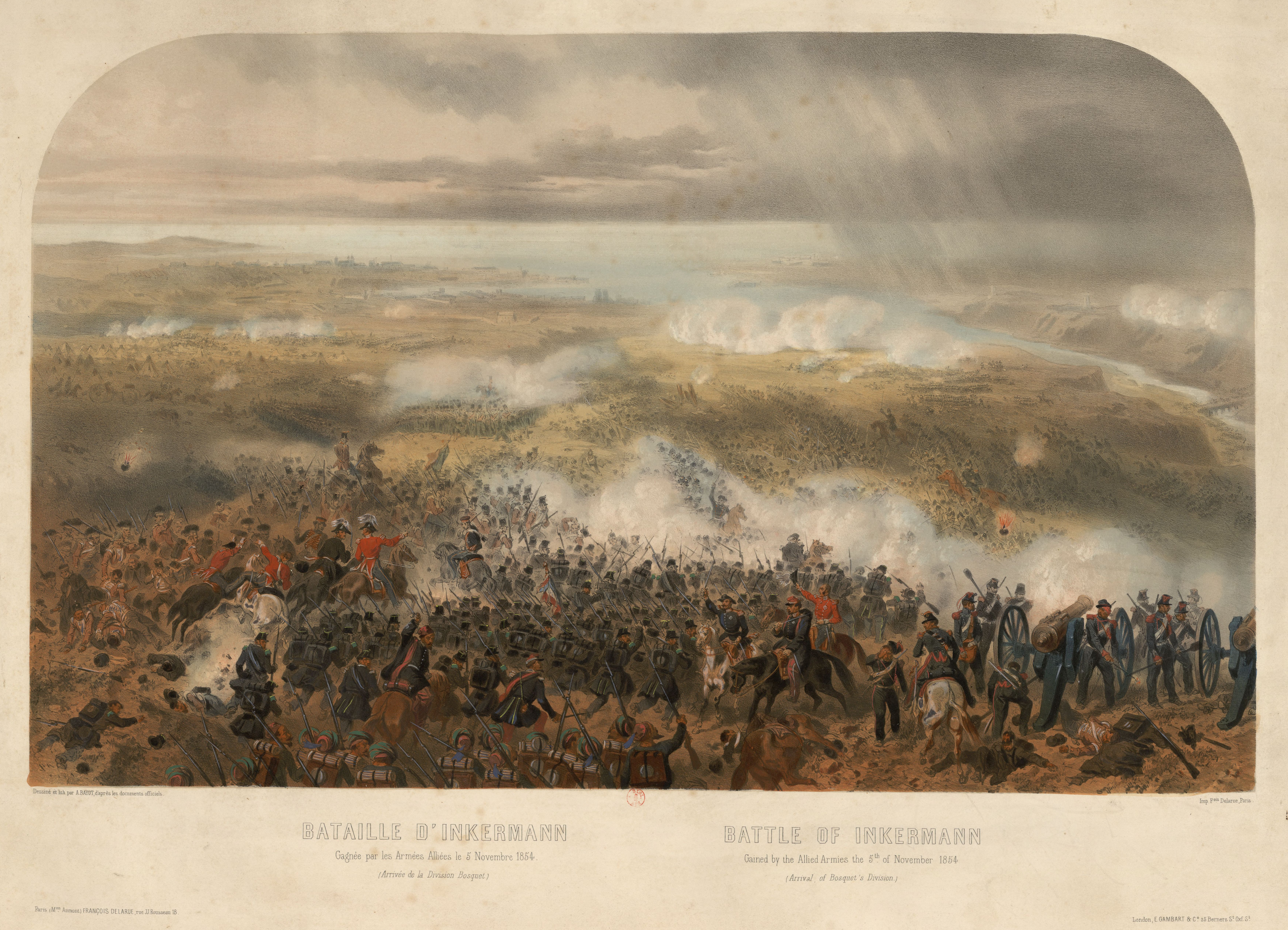 Battle of Inkermann - Arrival of Bosquet's division